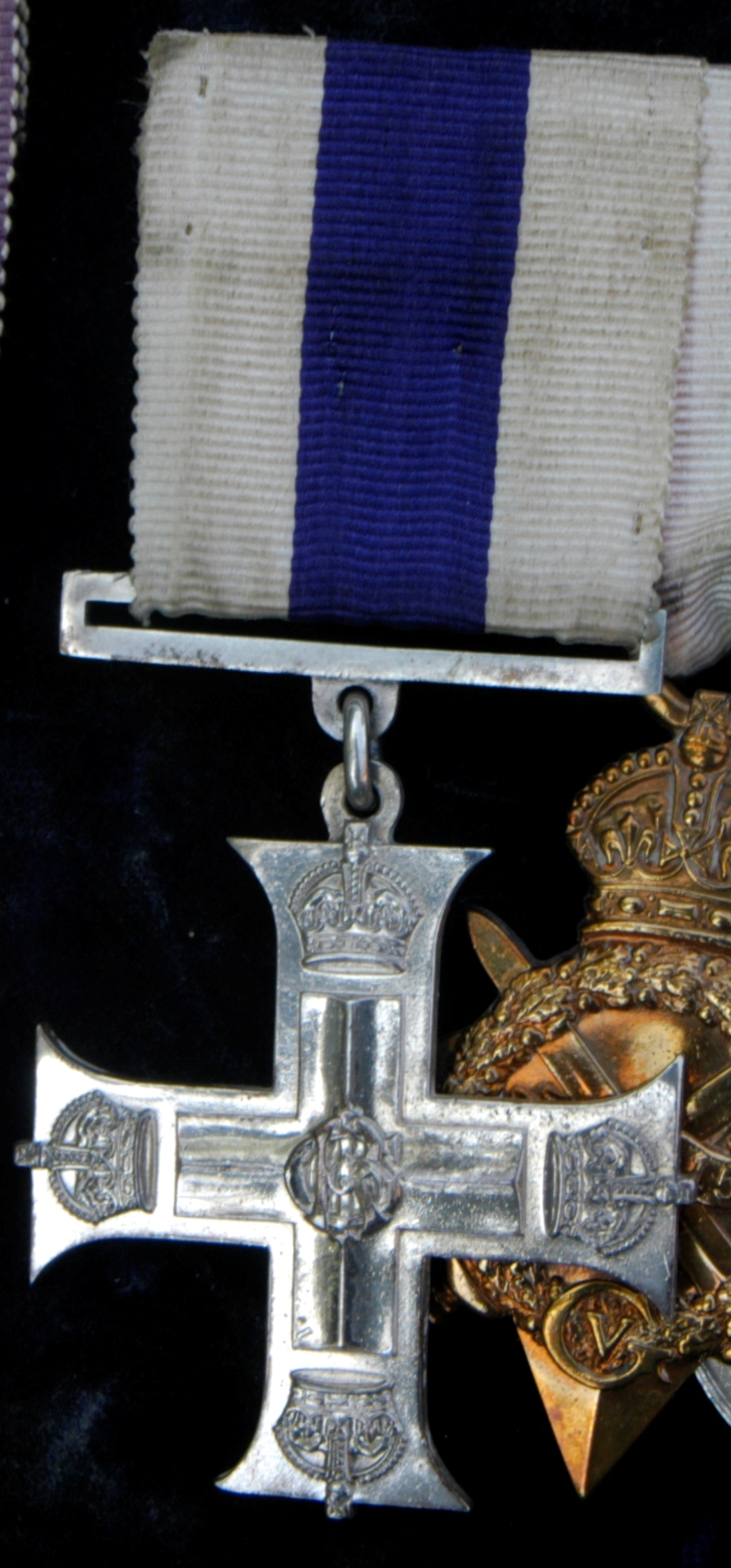 Photo by me (R. de SalisRodolph (talk) 00:13, 5 August 2014 (UTC)) of Military Cross awarded 1915 to 2nd Lt. E. W. Fane de Salis (1894-1980). (With some of a 1914-1915 star behind). Other information Medal: Privatsammlung Fane-de Salis.